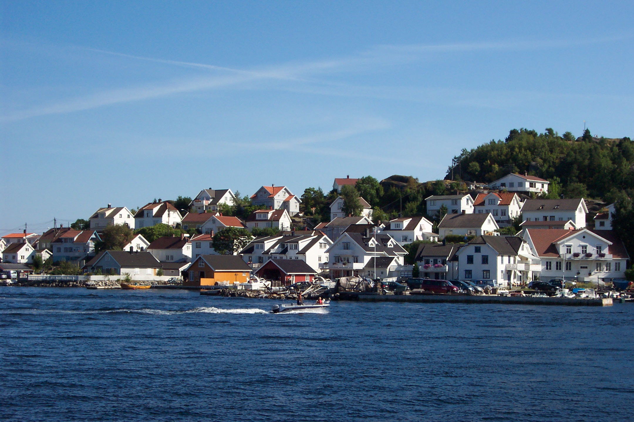 Øya in Kragerø seen from the town. (Photo:Ståle Kristoffersen).